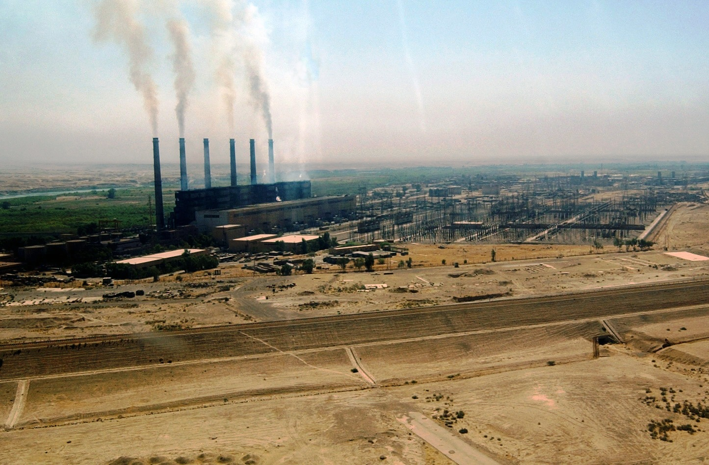 This is an aerial view of the Electrical Power Plant, located in Bayji, Salah Ad Din Province, Iraq (IRQ), during Operation IRAQI FREEDOM.